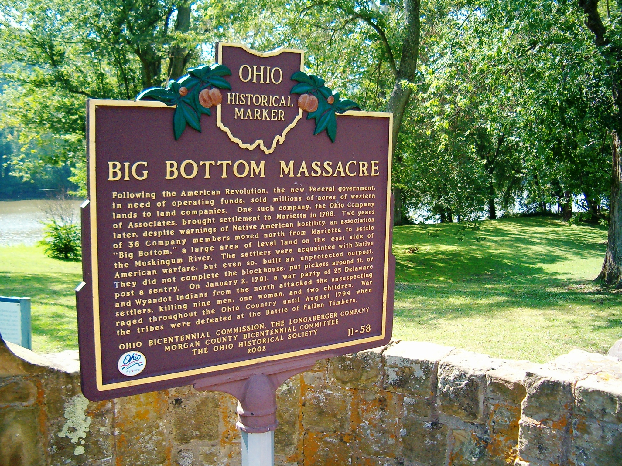 Plaque at the Big Bottom State Memorial Park, located along the Muskingum River near Stockport, Ohio. The plaque describes the Big Bottom massacre of January 1791. Photo date - August 2008. I took this photo and release to the public domain. ColWilliam (talk) 01:09, 1 September 2008 (UTC)